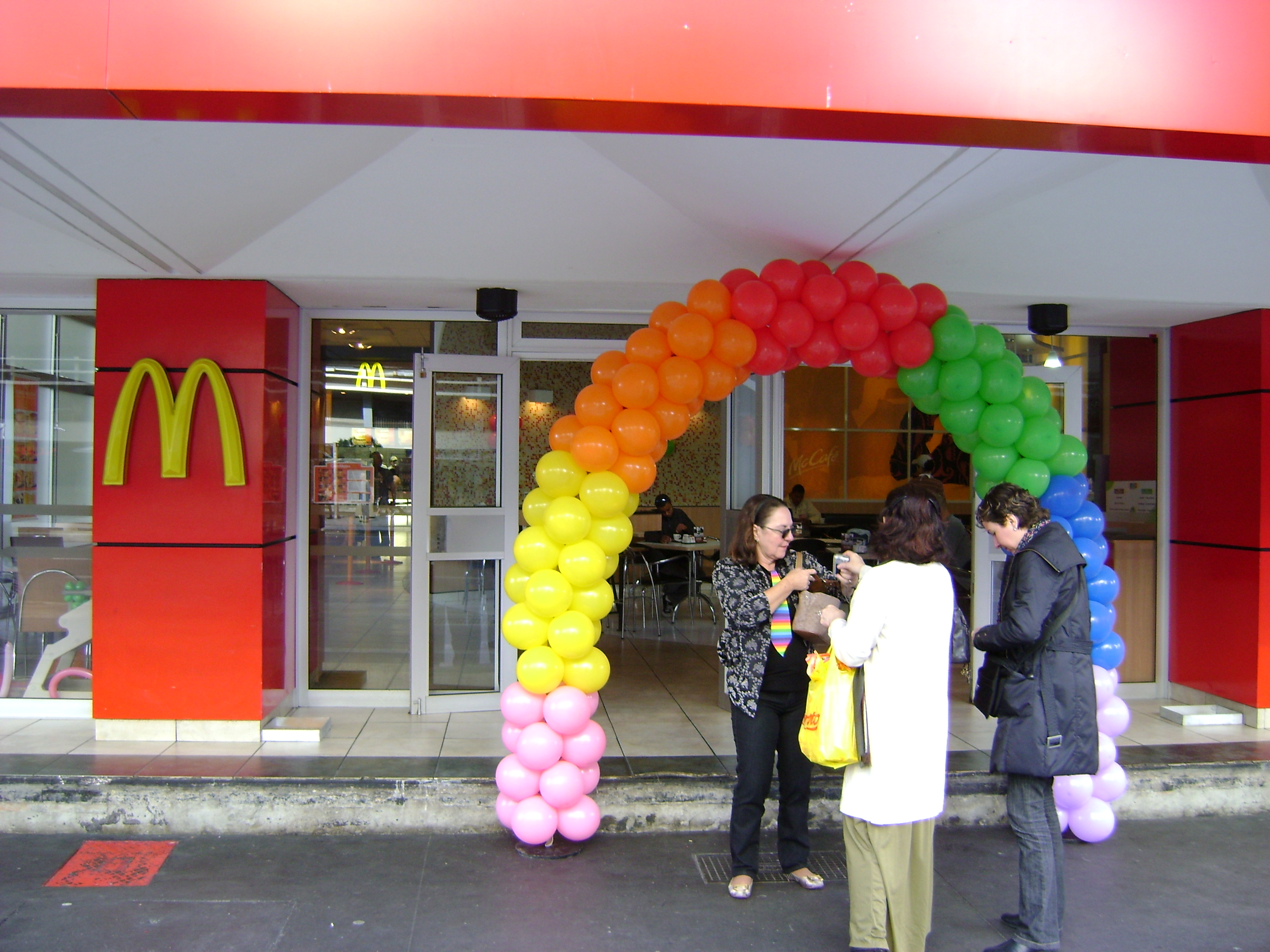 2009 Gay Pride in São Paulo